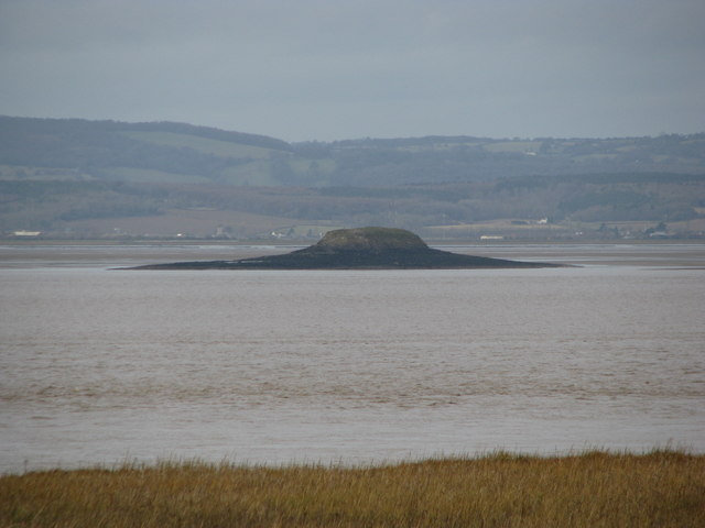 Denny Island from Portishead